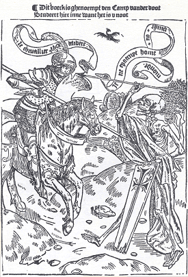 Illustratie bij Den camp vander doot van Jan Pertcheval